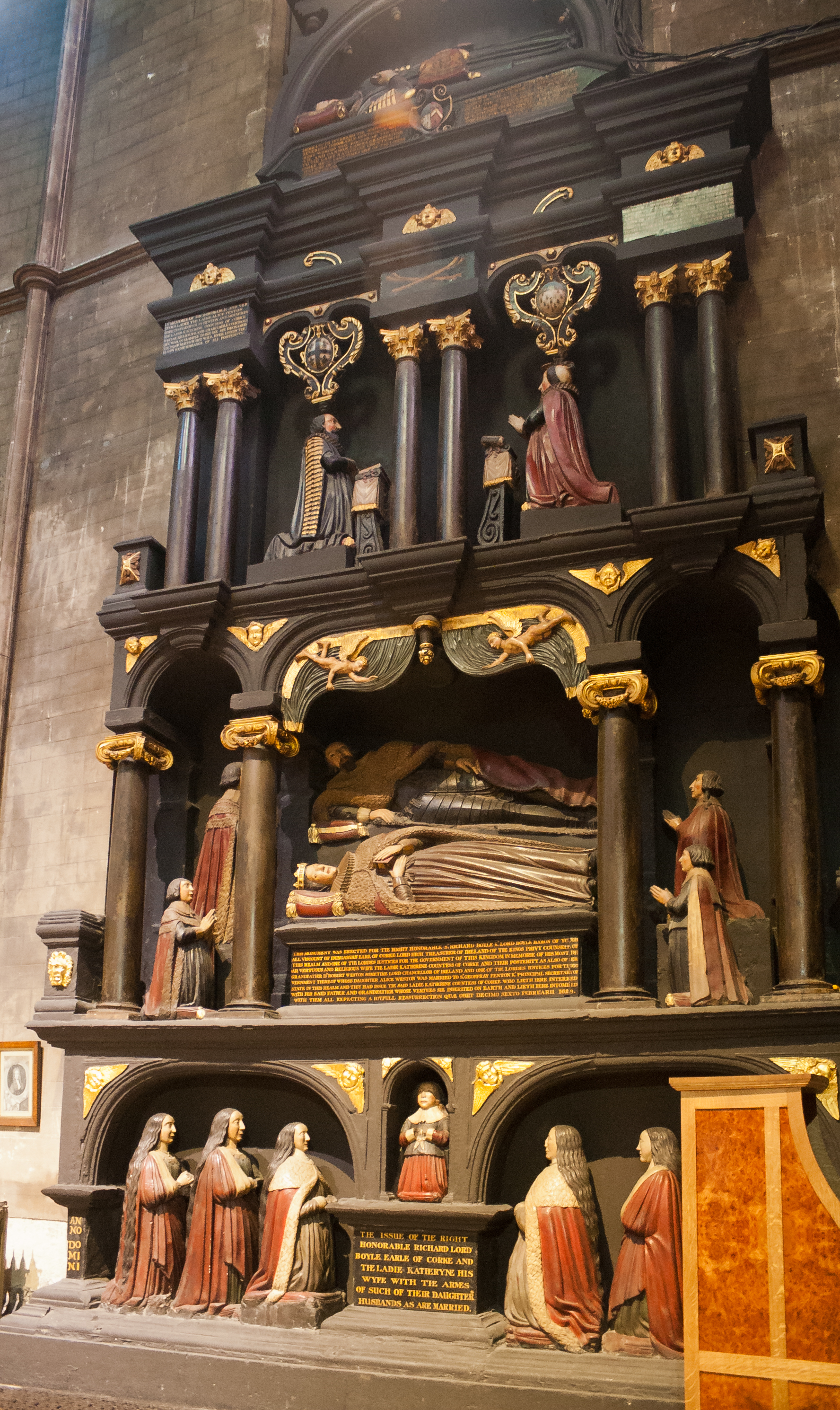 Four-tier monument dedicated to the memory of Lady Katherine Boyle (died in 1629), wife of Sir Richard Boyle, 1st Earl of Cork. The monument was designed by Roger Leverett and sculpted by Edward Tingham who completed it in 1632. It was originally installed behind the high altar, then dismounted in 1634 on initiative of Thomas Wentworth, 1st Earl of Strafford, packed into boxes, and re-erected in 1863 at its present location at the western end of the nave. See p. 621–2 in Christine Casey: The Buildings of Ireland: Dublin, ISBN 978-0-300-10923-8.